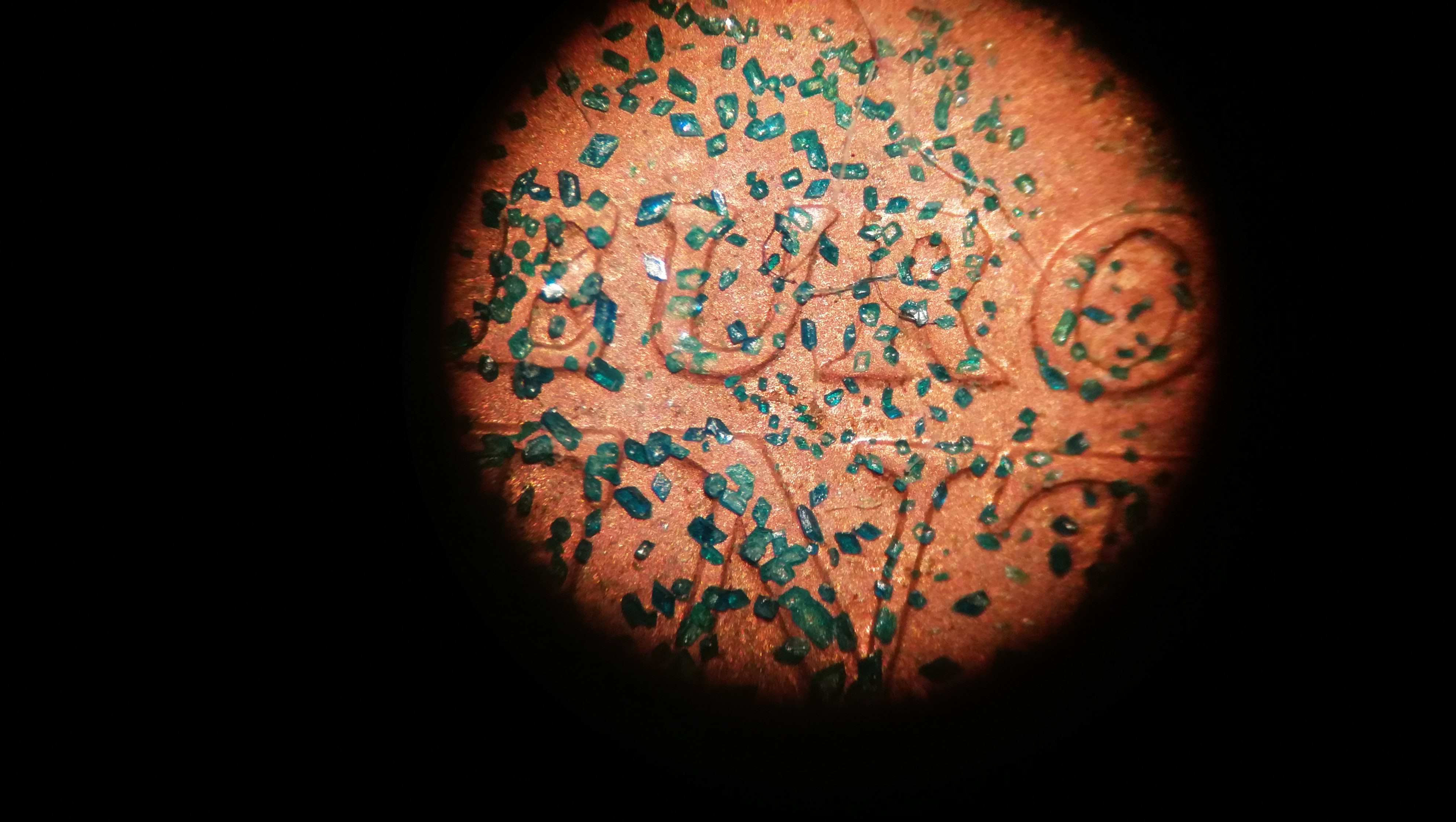 5 Euro cent treated with vinegar with 3D microscope